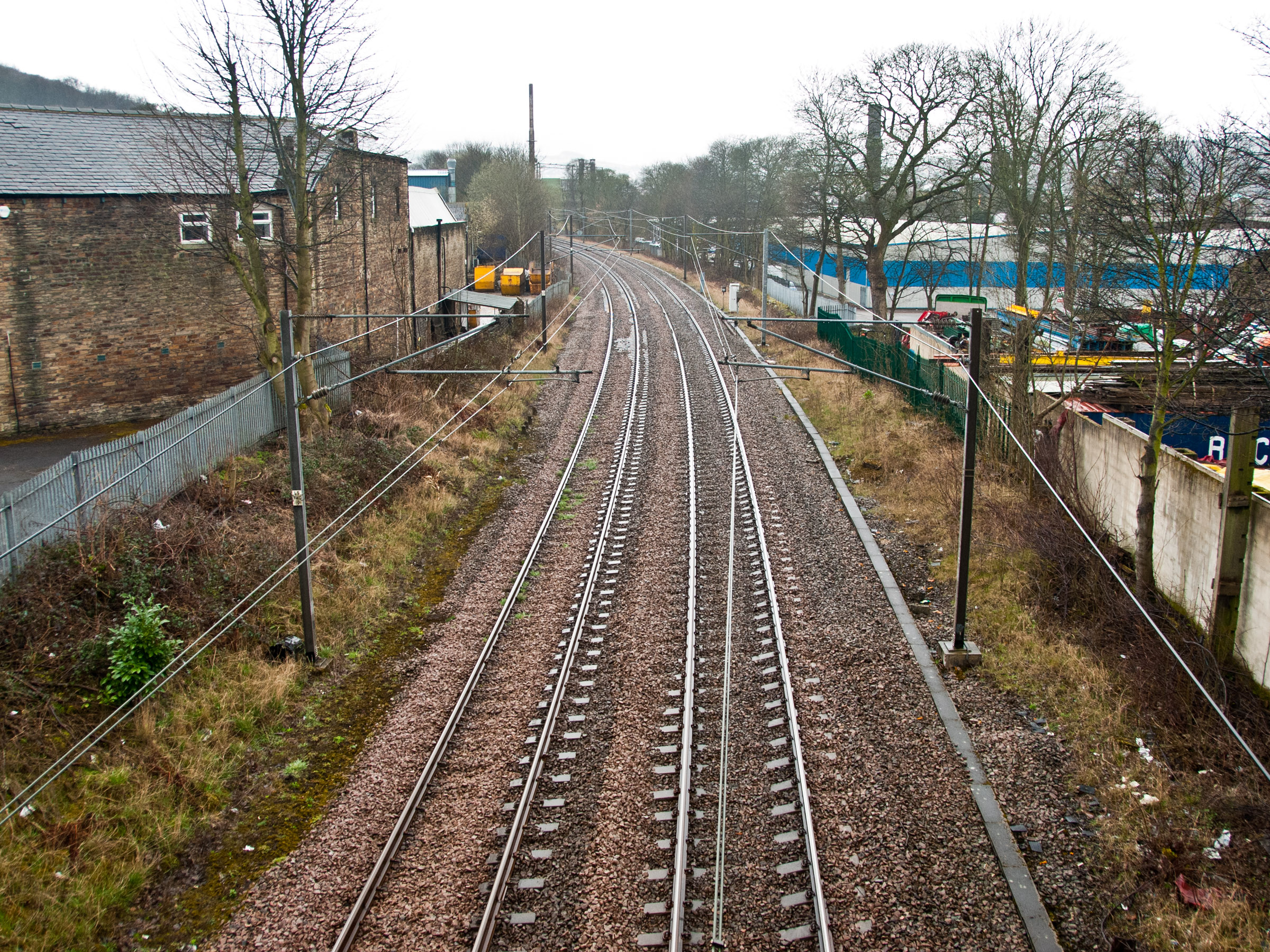 Site of Thwaites railway station, just east of Keighley Railway station in West Yorkshire. Thwaites was only open for 17 years and was closed due to poor patronage.